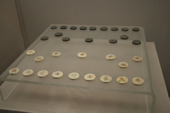 Chinese chess set pieces (or, in Chinese, xiangqi 象棋 set pieces), from the Song Dynasty (960-1279 AD) period of medieval China.